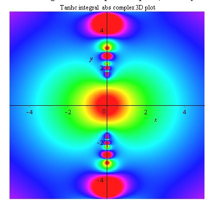 Tanhc integral abs density plot